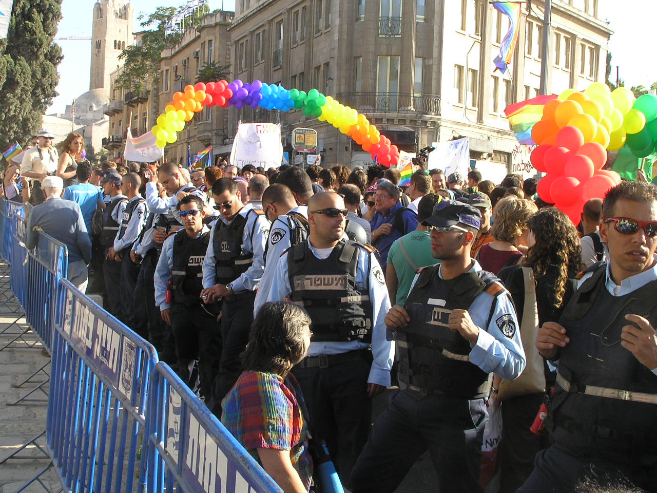 Policemen protecting the 2007 Jerusalem Gay Pride parade